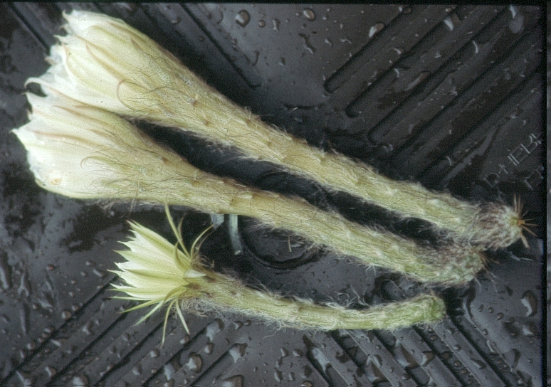 Flowers of Echinopsis calochlora ssp. calochlora (above) and ssp. glaetzleana (below); both from plants of type locality, Mato Grosso do Sul, Brasil.